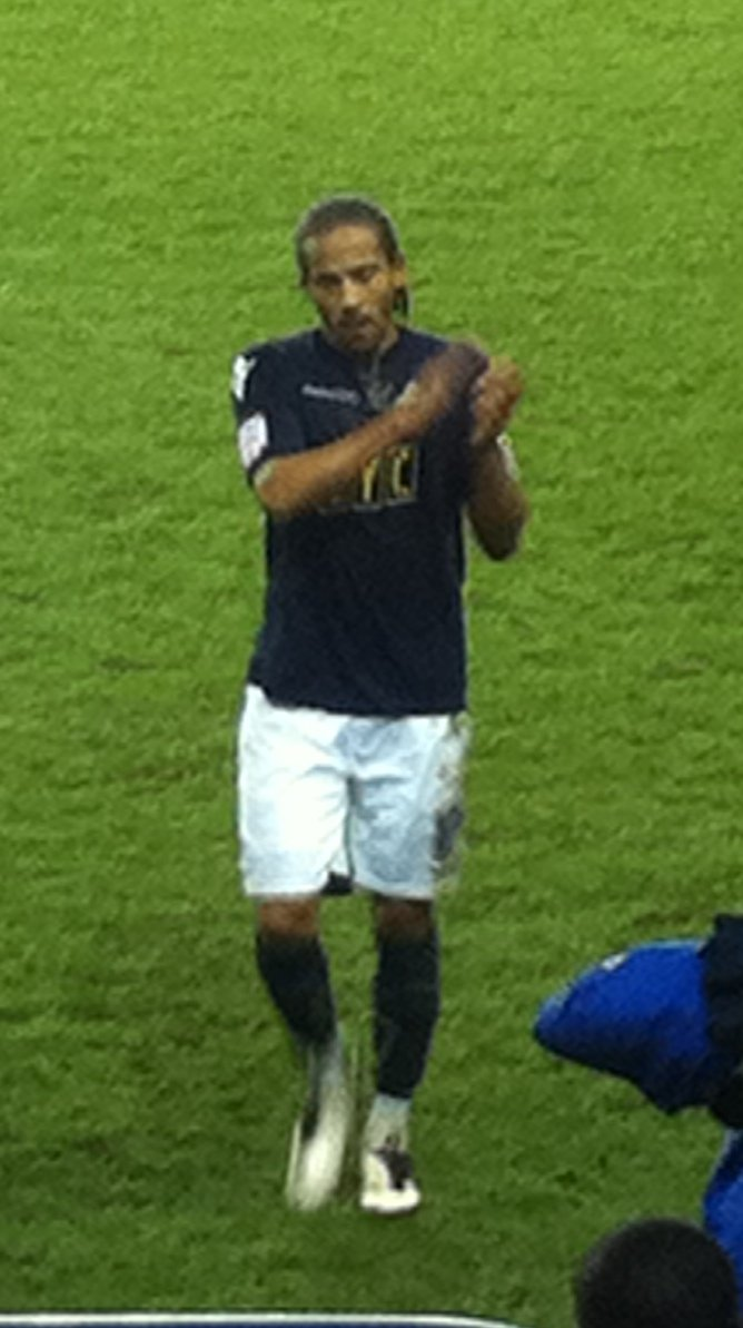 Mkandaire leaving the pitch after victory for Millwall over Scunthorpe.